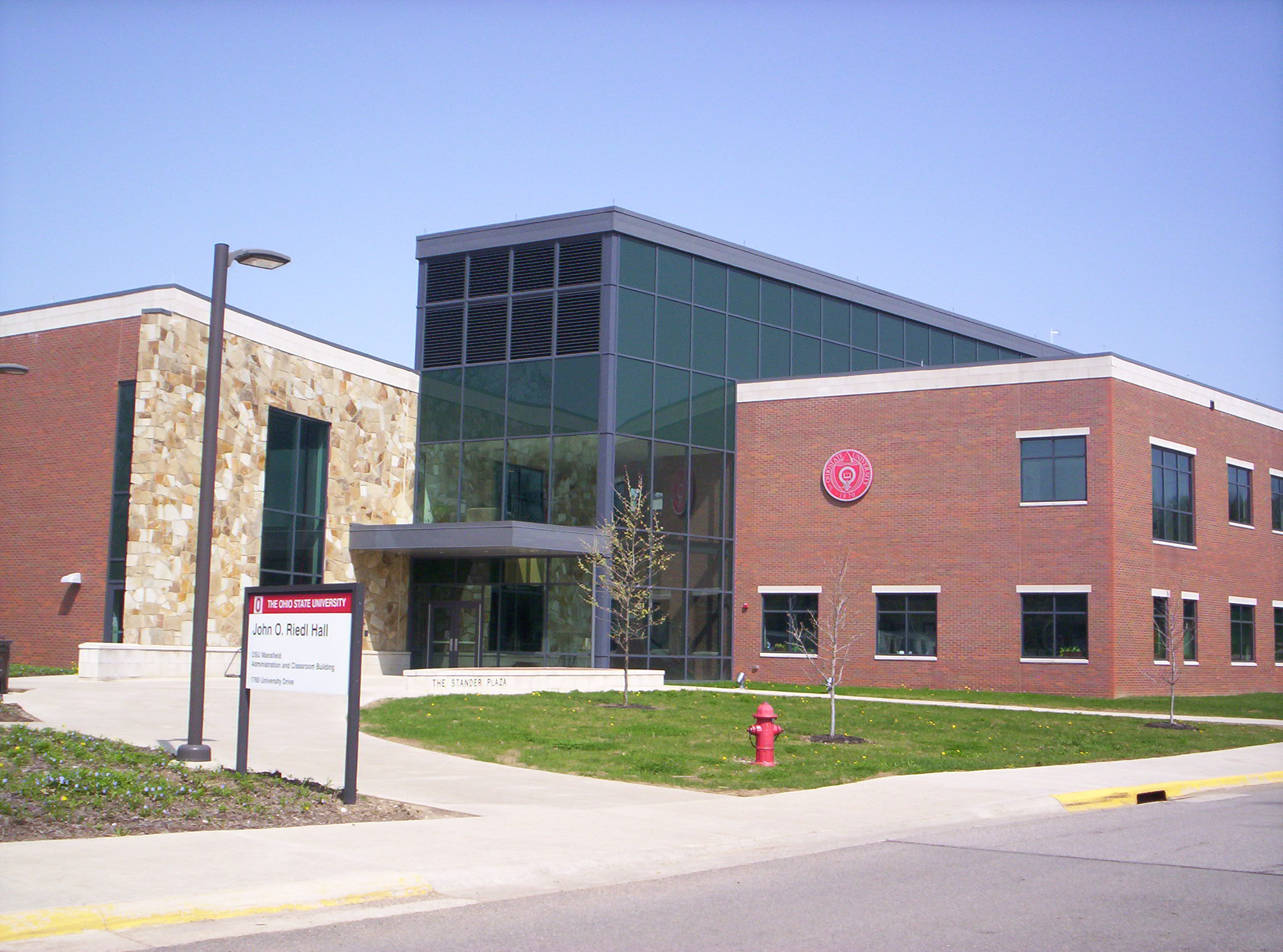 A view of the John O. Riedl Hall at The Ohio State University, Mansfield Campus.